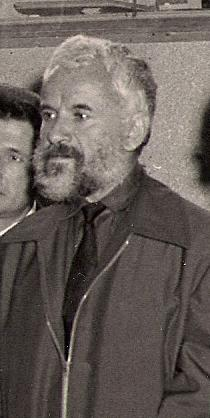 Djoko Radivoevic